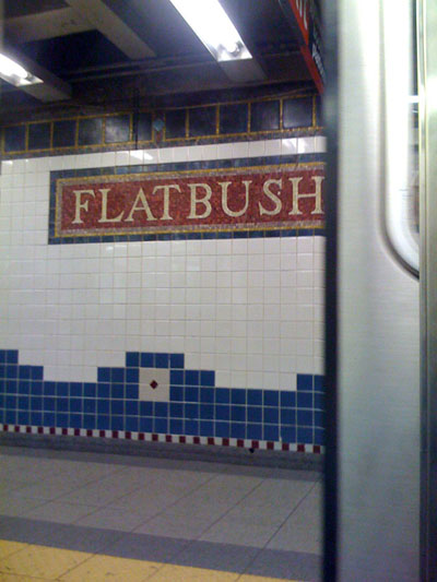 A picture of the Brooklyn College–Flatbush Avenue (IRT Nostrand Avenue Line) subway station as the doors were closing.